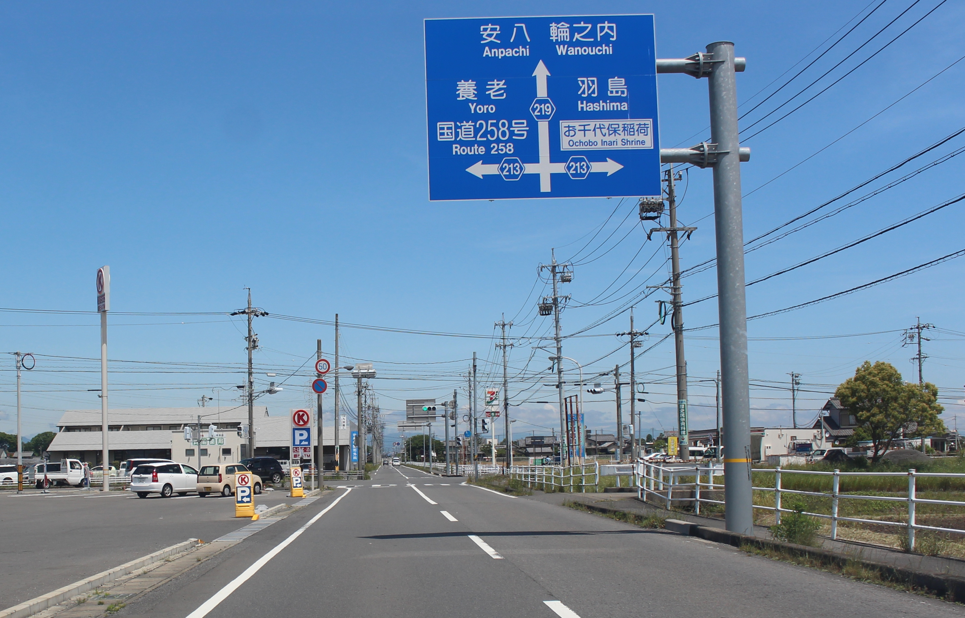 Gifu Prefectural Road Route 219 and Gifu Prefectural Road Route 213 in Sango, Hirata-cho, Kaizu, Gifu prefecture, Japan.